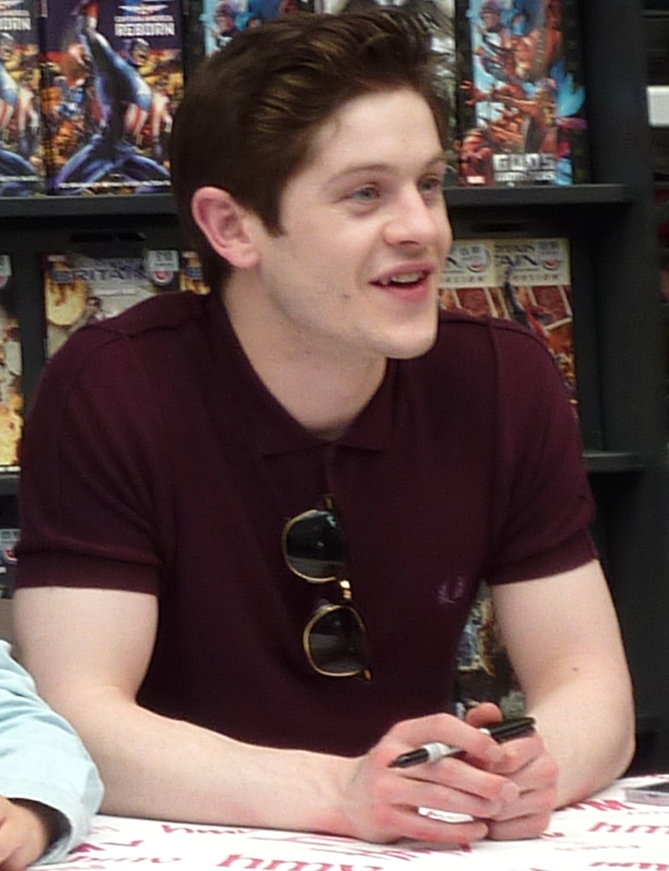 Iwan Rheon of Misfits doing a signing